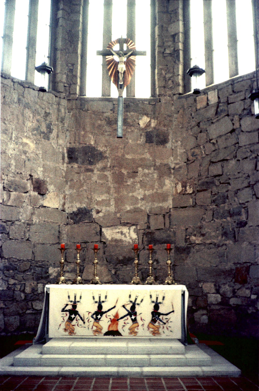 St. Joseph's Catholic Church, Mescalero, New Mexico - 1975 More Photos